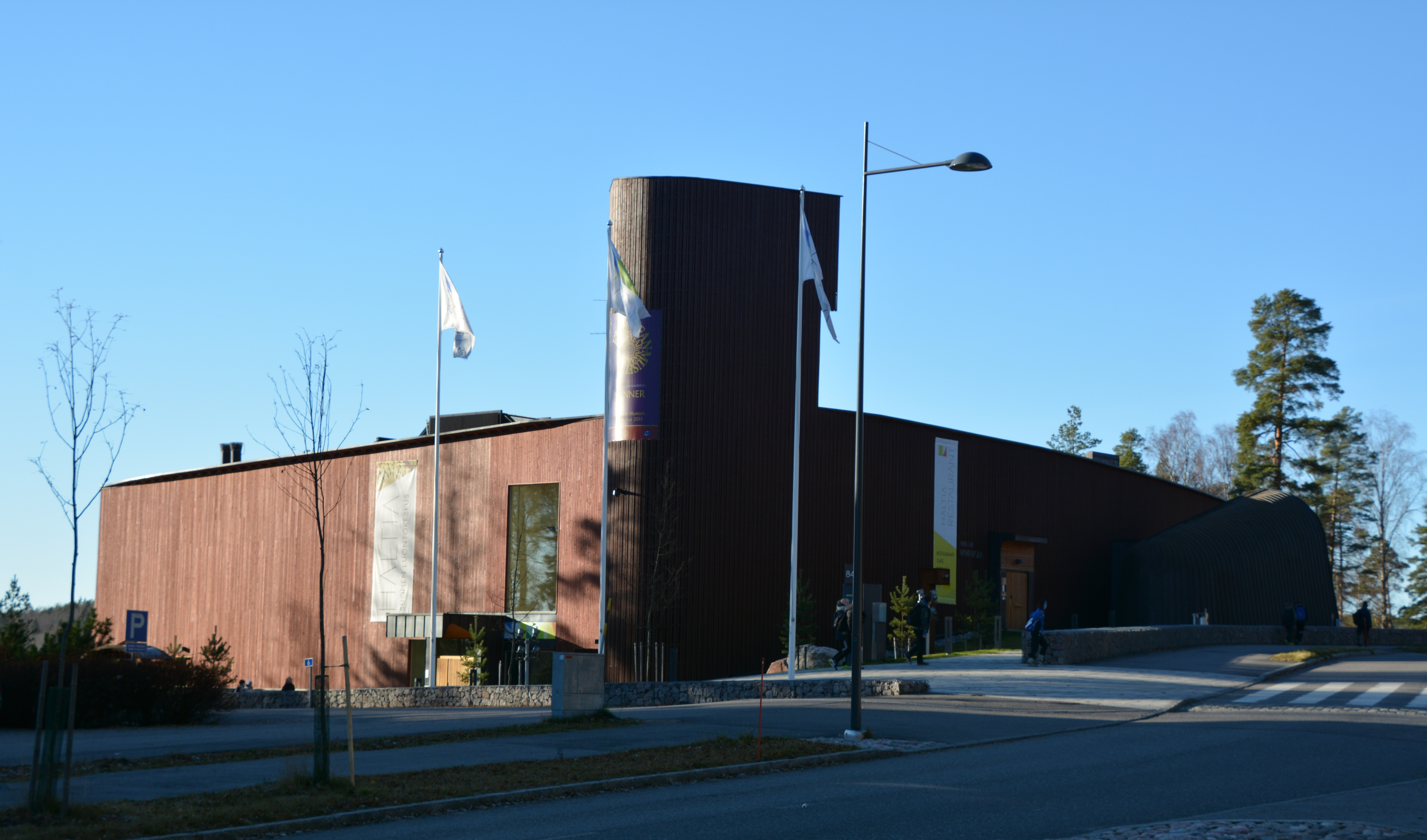 Finland's Nature Centre Haltia, Noux National Park, Espoo. View from south